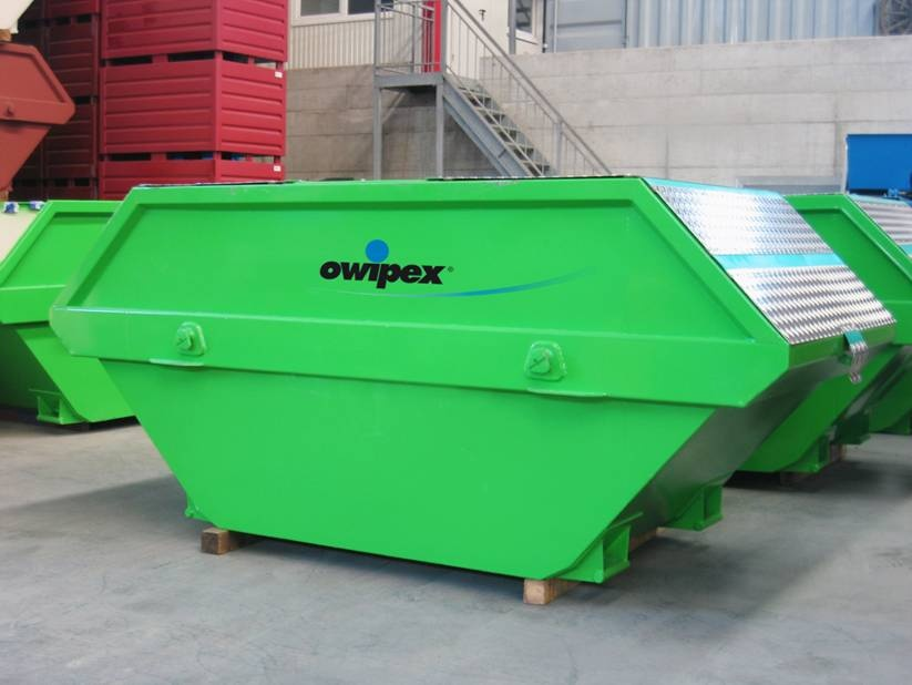 skip with covers to place in urban spaces for waste disposal